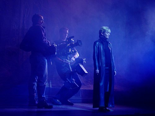 Steadicam operator Mark Ellison and sound recordist Martin Huntley film Yvette Fielding on series 1 of Most Haunted.